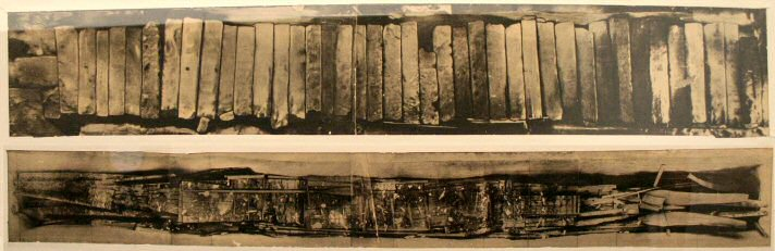 Solar bark of Kheops. Situation when discovered. Image taken by Alex Lbh in April 2005.